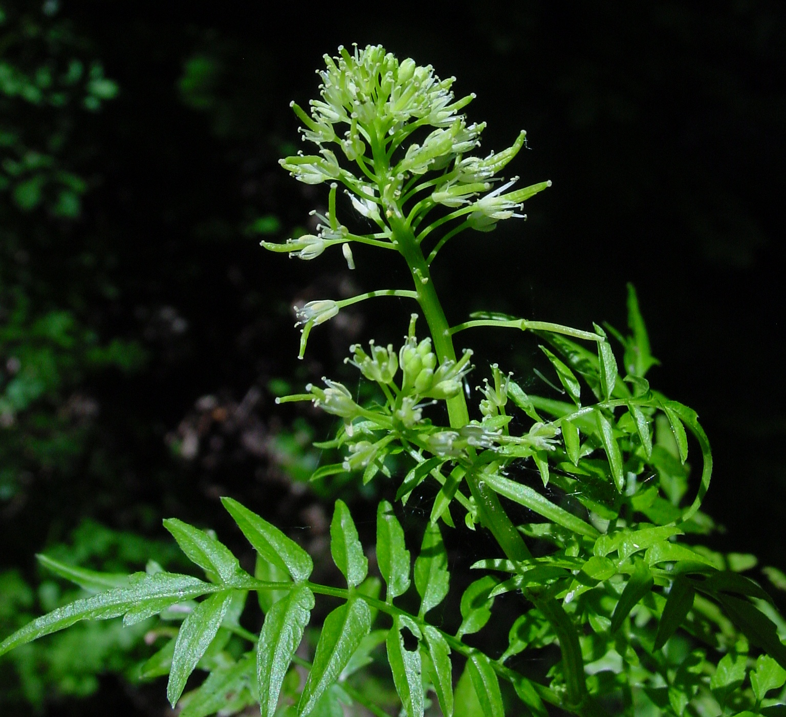 Flowers of Cardamine impatiens